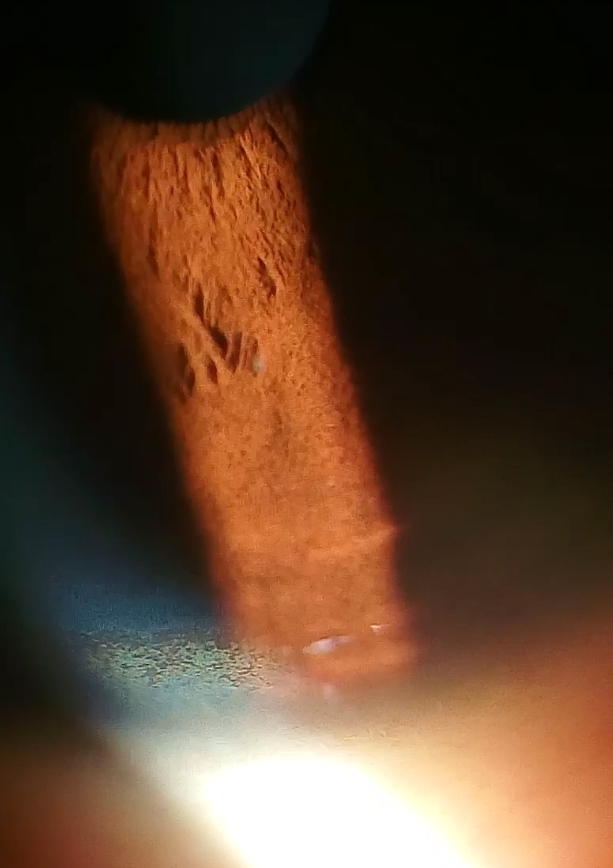 11 years old boy suffering from Wilson's disease attended at BSMMU, Dhaka